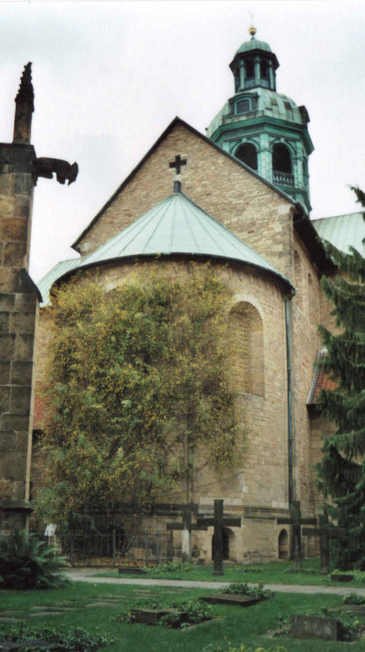 The 1,ooo year old rosebush in the cathedral of Hildesheim